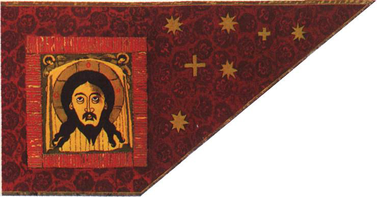 Banner of Ivan IV of Russia